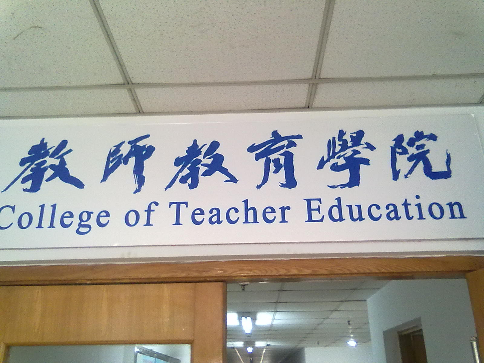 This is the entrence toward the office building of College of Teacher Education